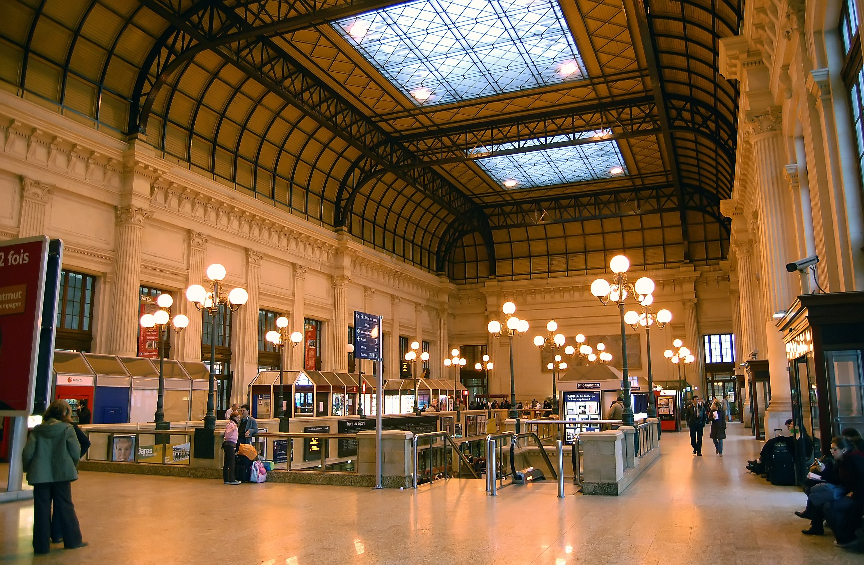 Bordeaux train station, France